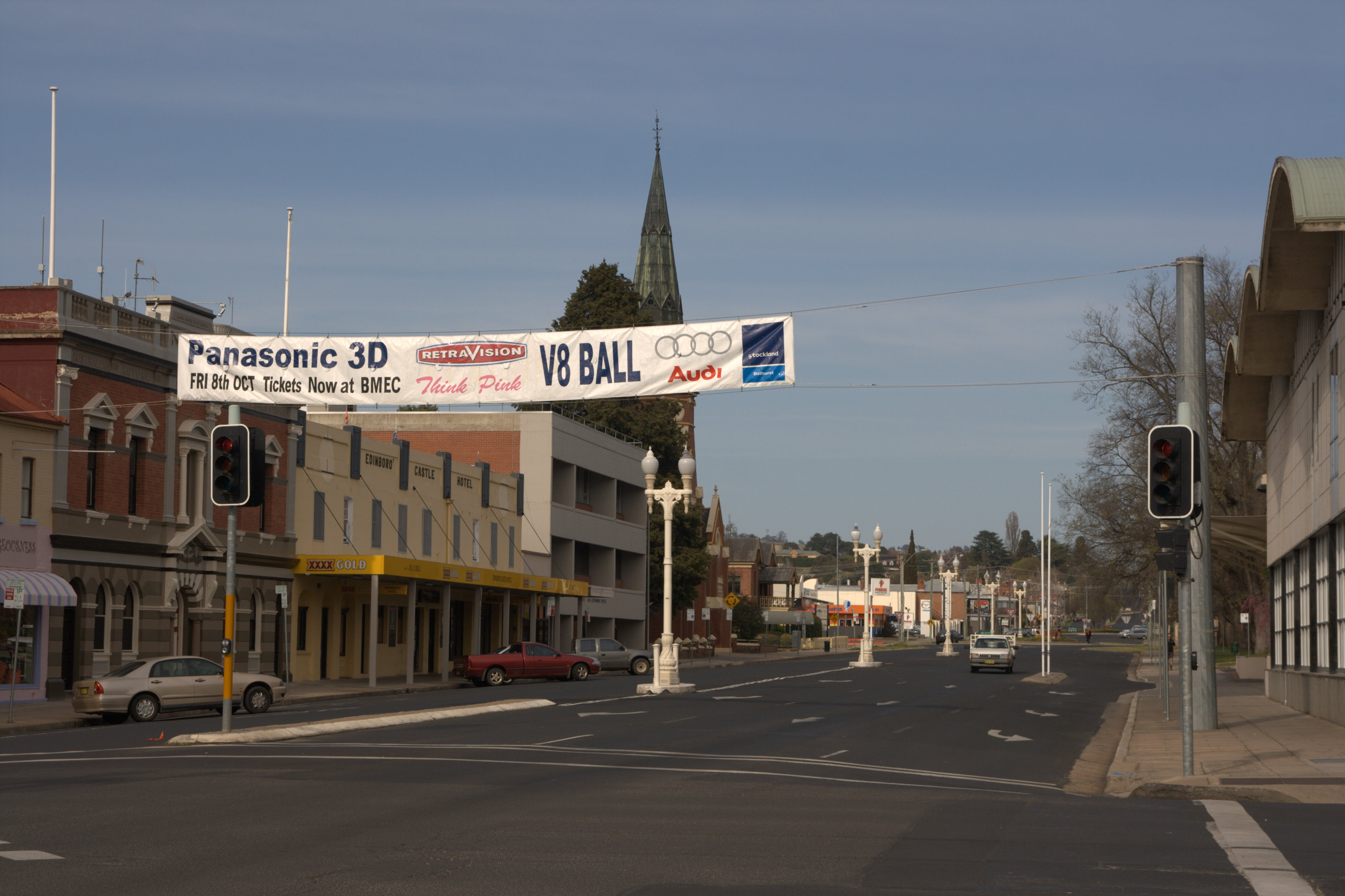 Bathurst